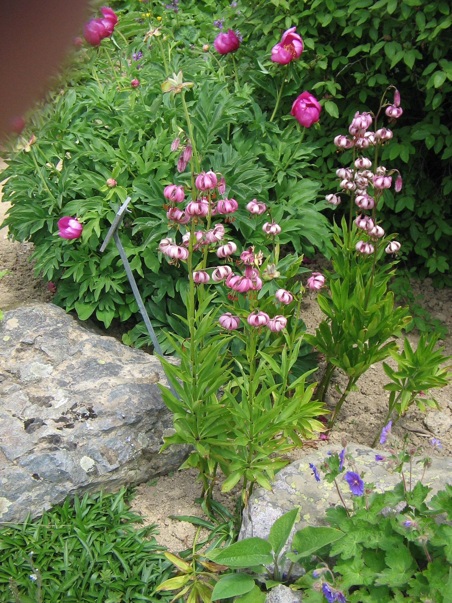 Lilium martagon & Paeonia arietina